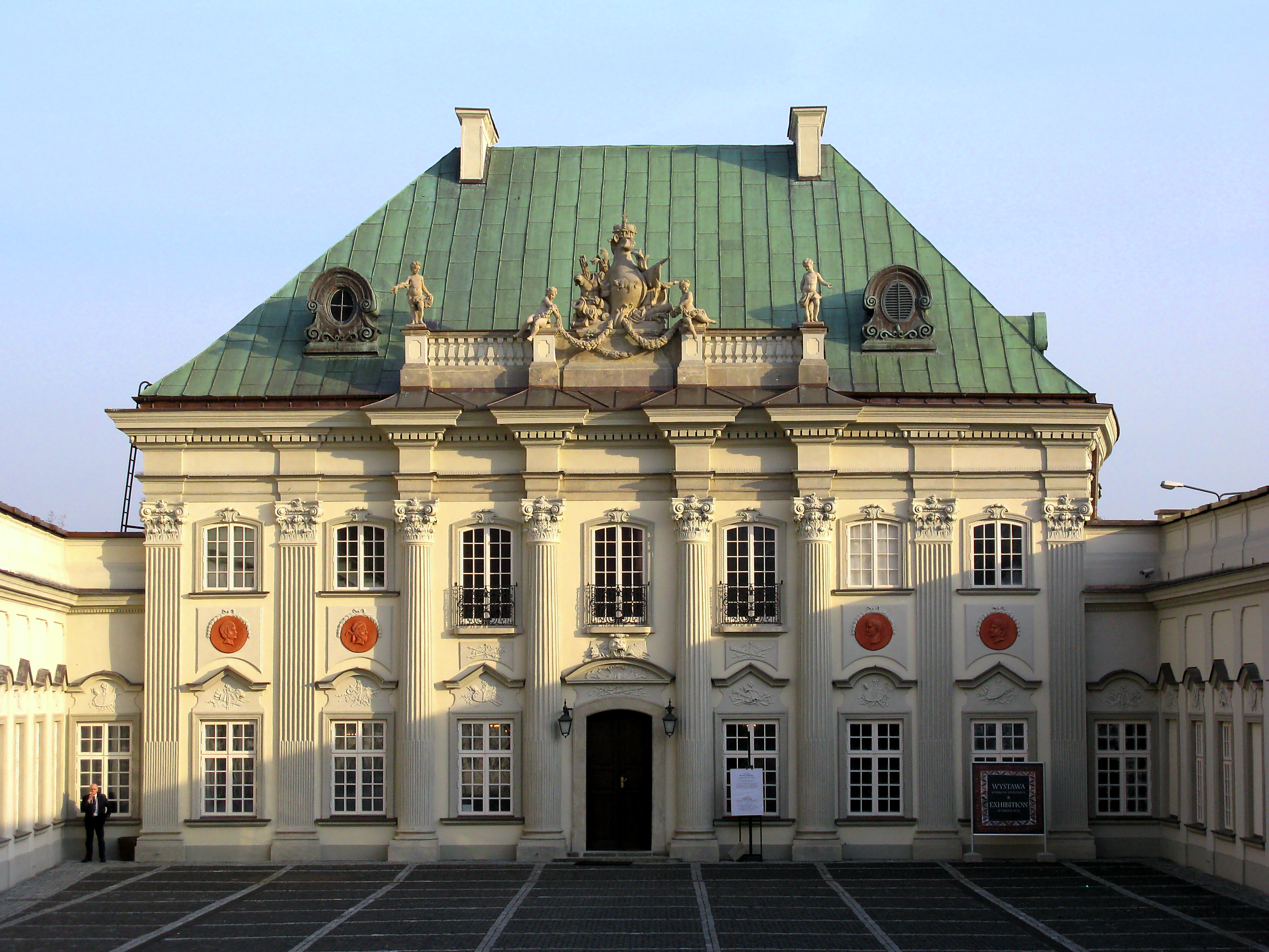 Copper-Roof Palace, Warsaw